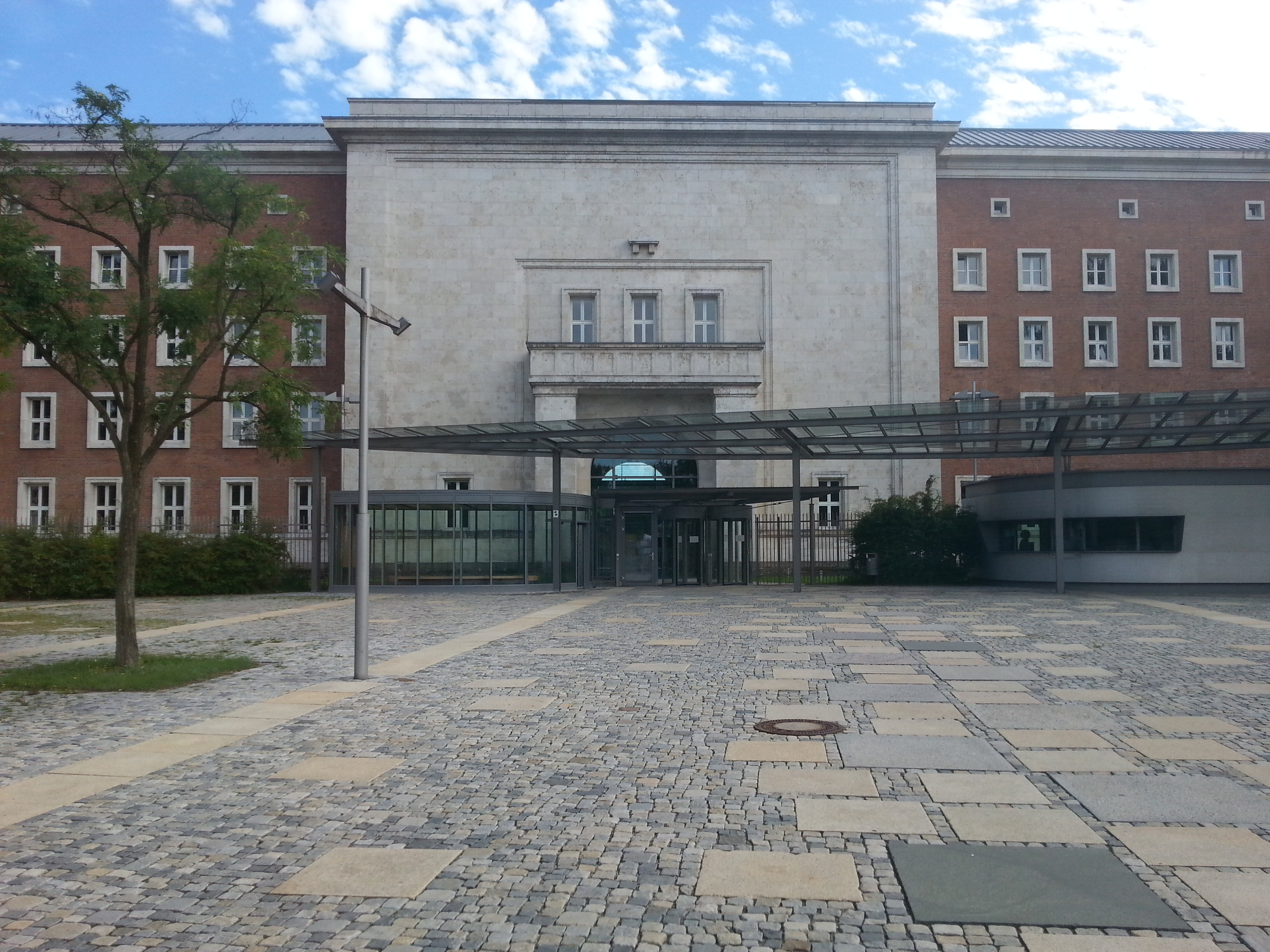 Entrance portal of the former SS barracks in Nuremberg